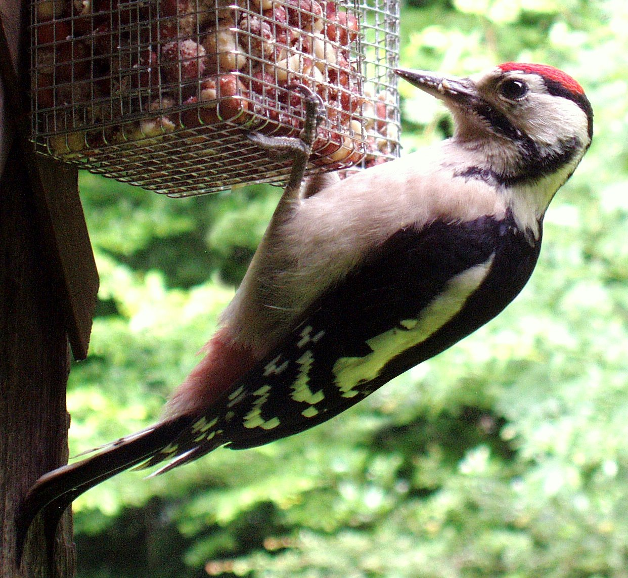 Great Spotted Woodpecker (Dendrocopos major) on a bird feeder.